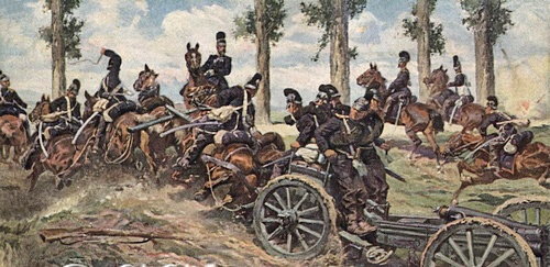 Bayerische Artillerie im Gefecht bei Ormes (nahe Orleans), 11. Oktober 1870